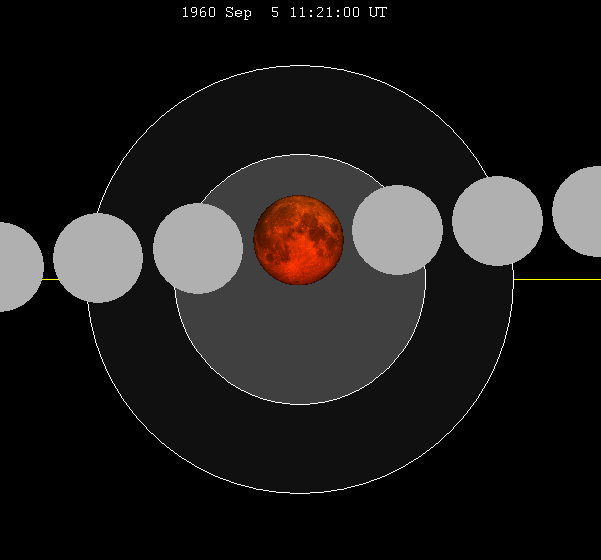 September 1960 lunar eclipse chart of moon's path through the earth's shadow. thumb